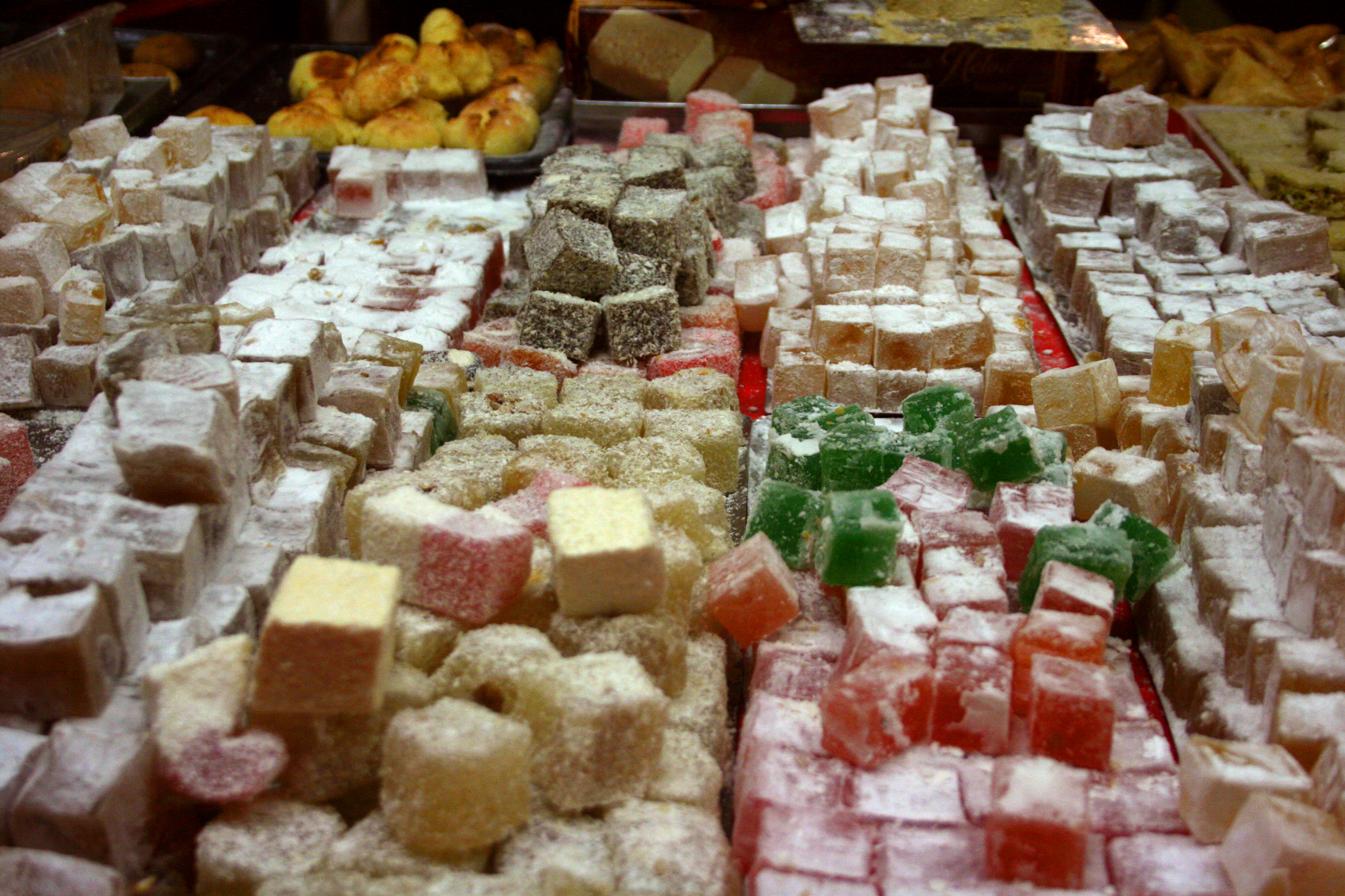 Lokum in Brussels Restaurant